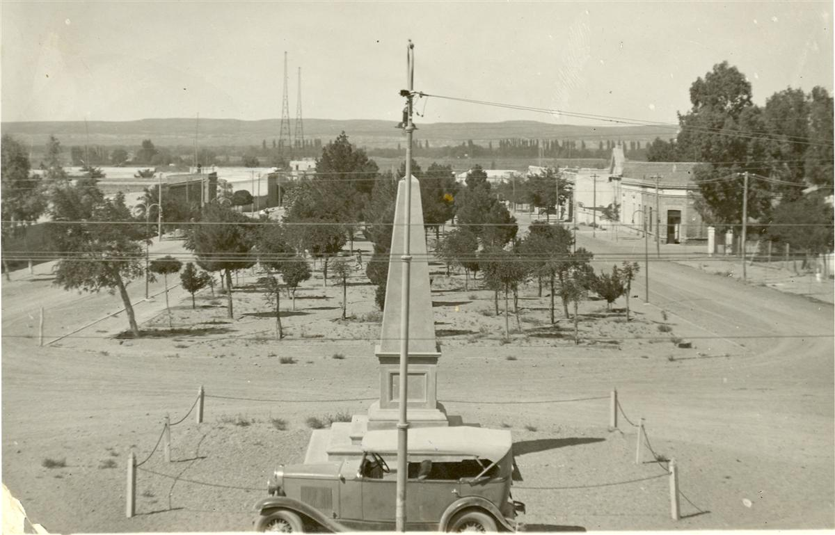 Argentina Av. Downtown Neuquen in 1932.